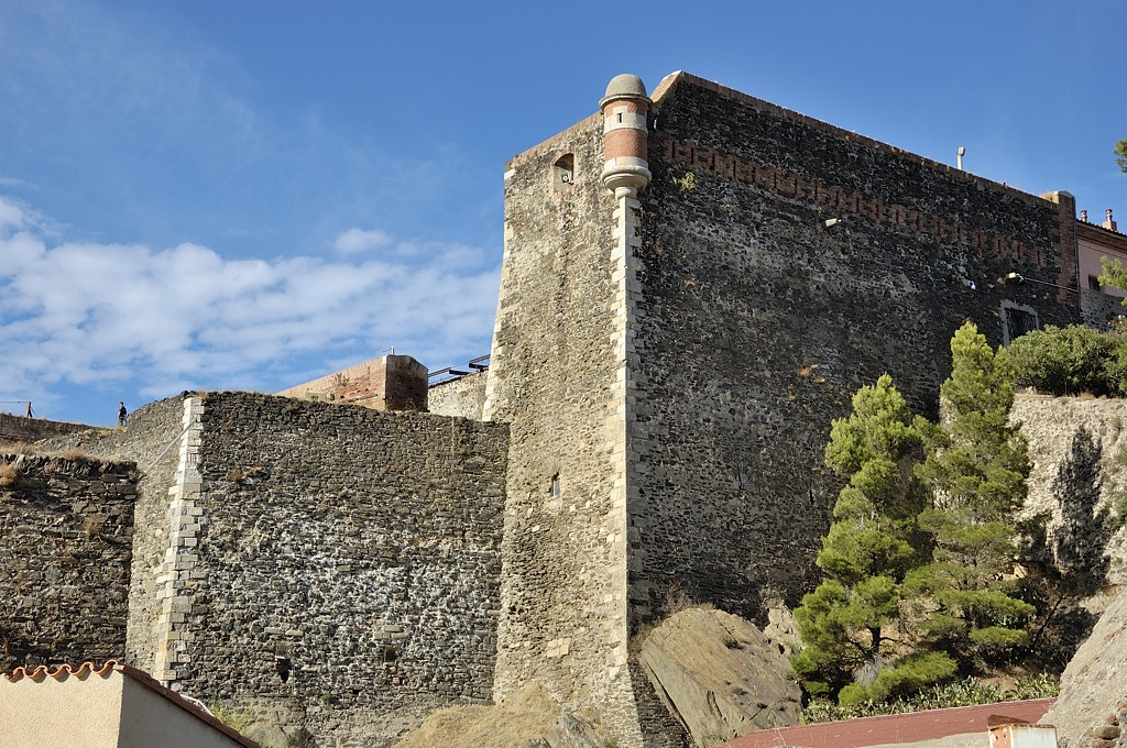 Fort Mirador, Collioure